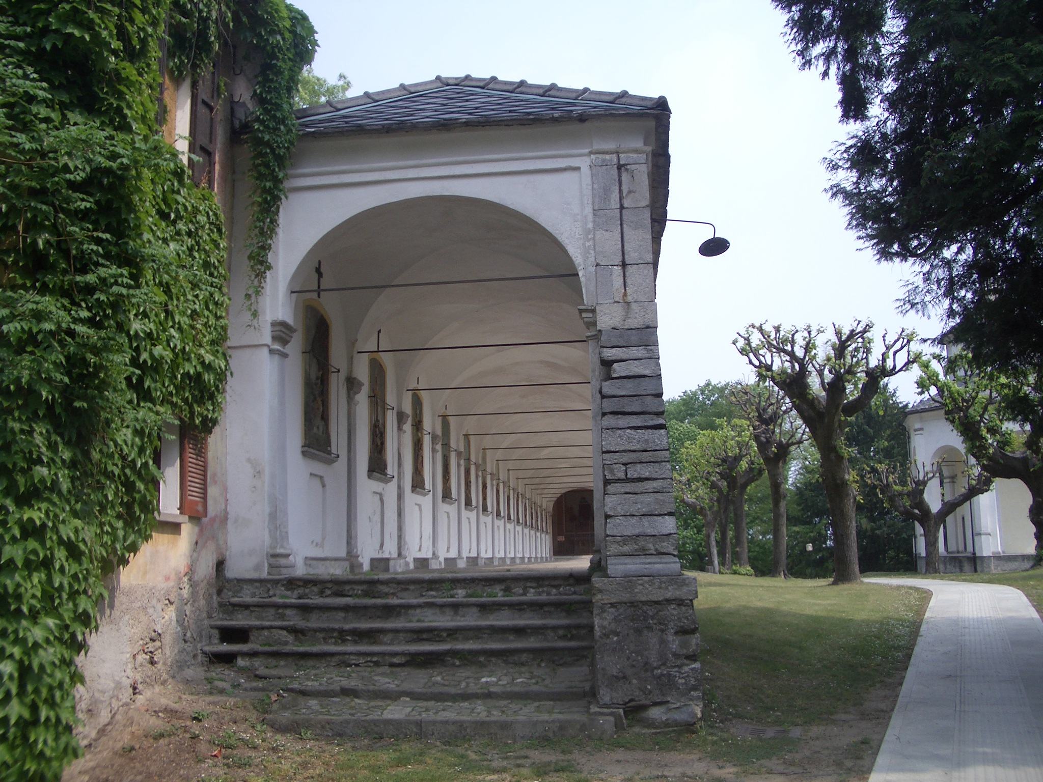 Sacro Monte di Ghiffa, (Verbania), Italy, The Via Crucis Porch